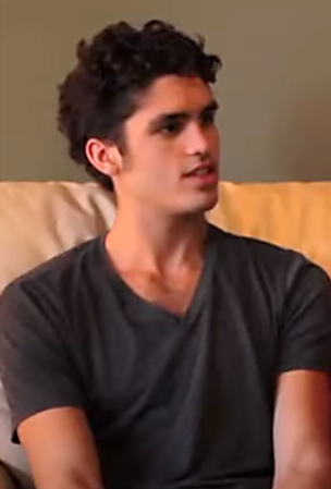 Actor Tom Maden in a YouTube video, published in 2011. Image has been slightly cropped/sharpened.